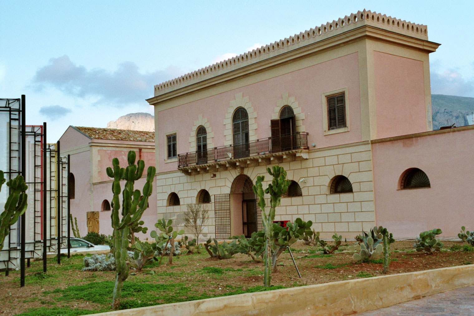 Terrasini, Italy Palazzo d'Aumale, seat of the Civic Museum Main facade